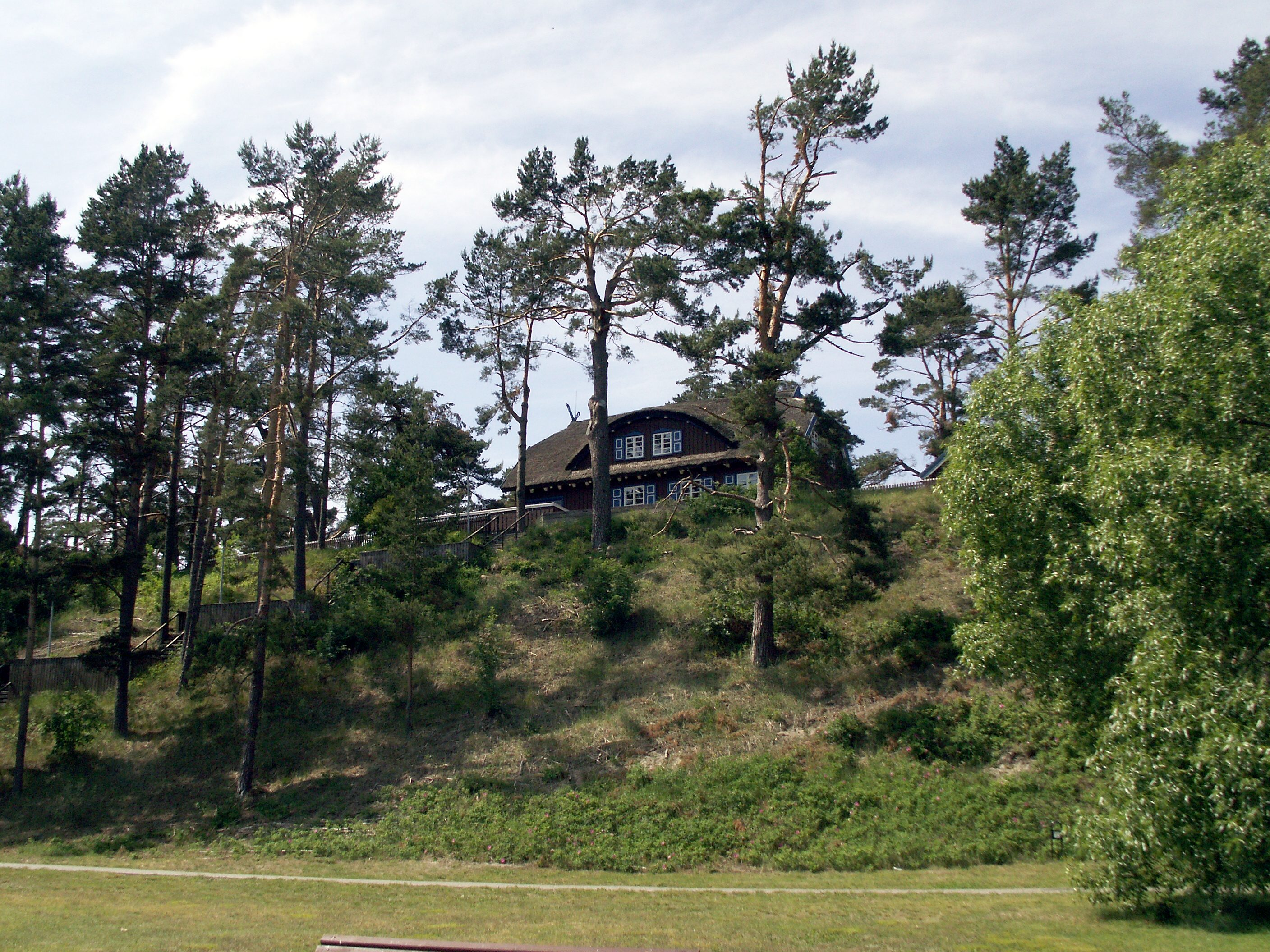 Vila of Thomas Mann in Nida, Neringa district, Lithuania